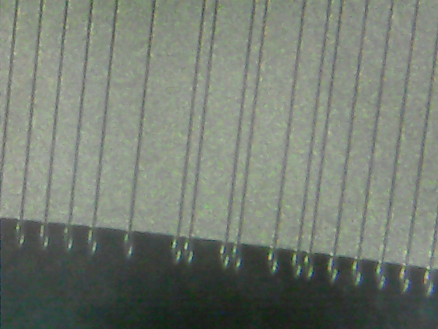 Burst cutting area of a Wii disc with normal lighting under a cheap digital microscope at approximately 200x magnification, showing the resync byte RS_BCA11.